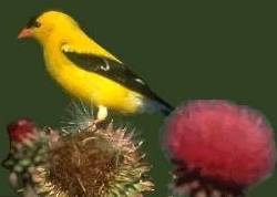 A male American Goldfinch